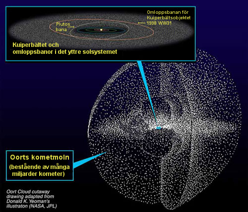 Note: See the version numbered to create or enhance one translation. If you can, help make this description accessible to all by translating it into other languages – thanks!